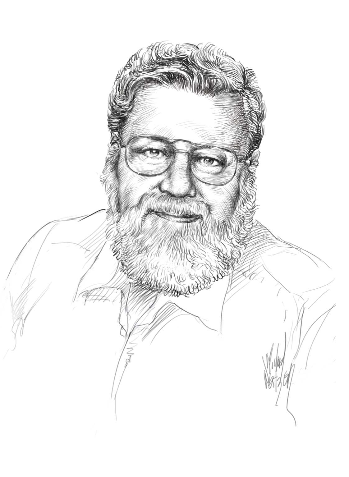 Portrait of comic book artist Dave Cockrum from Portraits of the Creators Sketchbook.